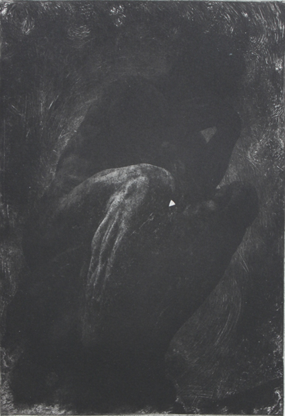 "The Rodin Garden Sculptures" Plates created 1993-1994 Printing performed 1995-1999 Musee Rodin, Paris since 2000 Photogravure and monotype techniques on copper plates Prints: 40 cm X 50 cm (approximately) Copper Plates: 21 cm X 30 cm